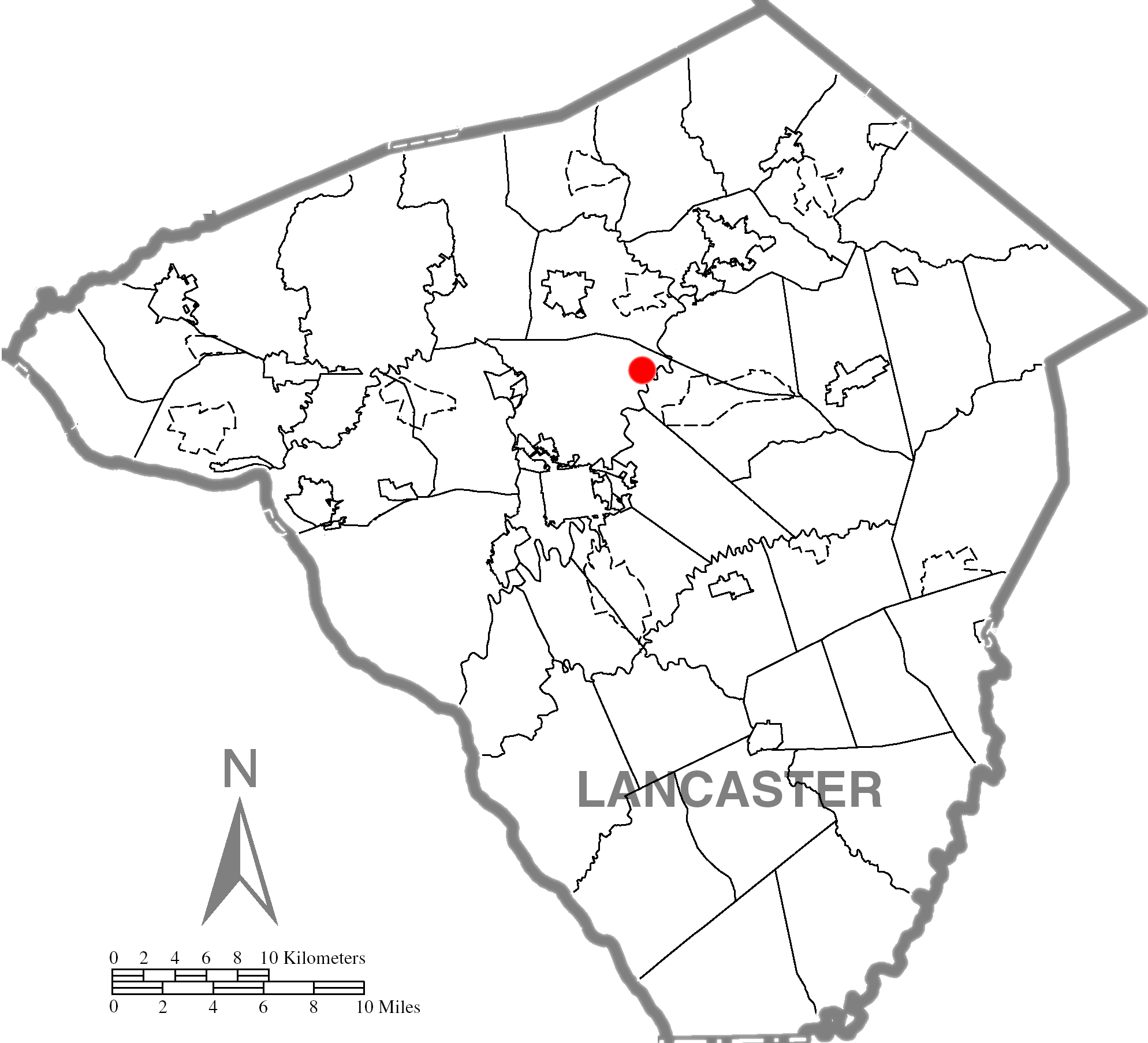 Lancaster County dot map of the Pinetown Bushong's Mill Covered Bridge.